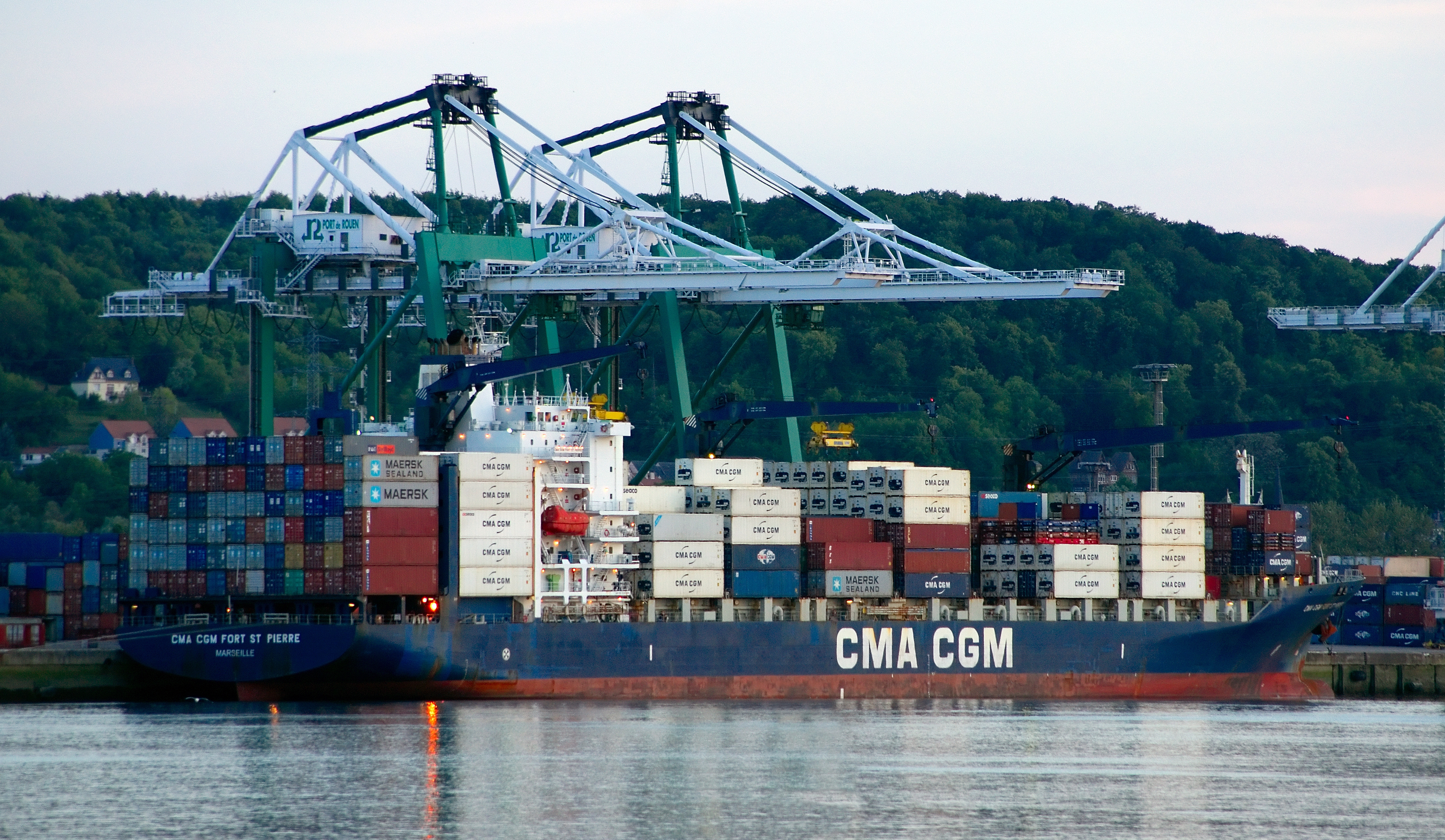 Container ship CMA CGM Fort Saint Pierre, Marseille